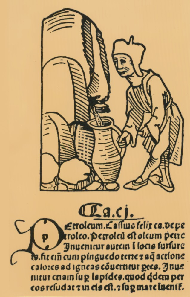 Petroleum (bitumen) - engraving XVI. sec.